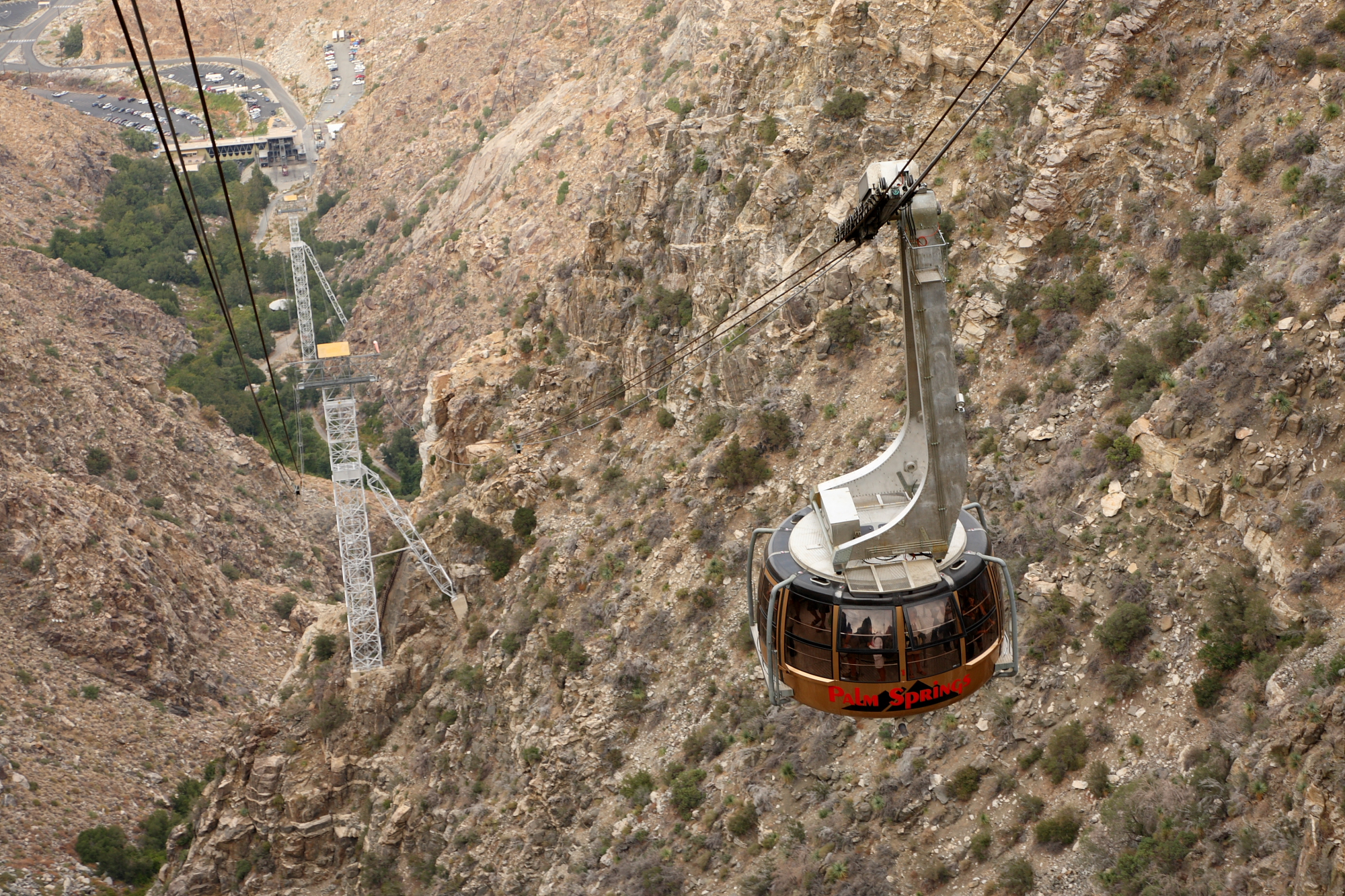 A tram car and the valley station of the Palm Springs Aerial Tramway, California. It is the largest rotating tramway in the world - each car rotates continuously throughout the 8'30" journey to the top offering views of Chico canyon and beyond.